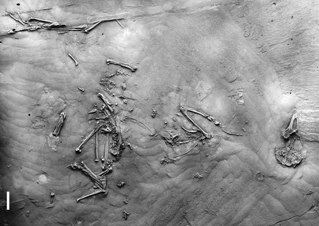 Wieslochia weissi gen. et sp. nov., holotype, specimen SMNK−PAL.3980 from Frauenweiler near Wiesloch, Germany, early Oligocene.